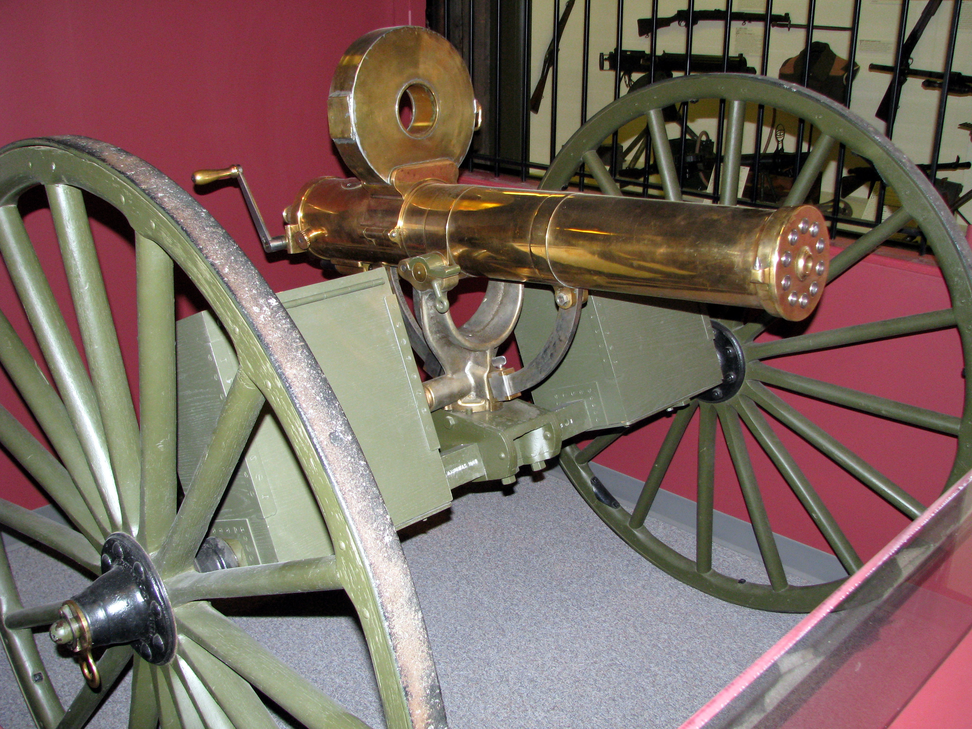 Prison pictures from the Old State Penitentiary in Boise, Idaho. We visited there over Thanksgiving weekend 2007. I've been meaning to upload some of these since then.